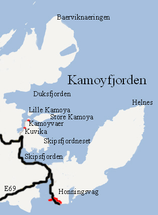 More detailed map of Kamoyfjorden